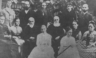 Picture of ACM missionaries in Ceylon (now Sri Lanka) in 1890 The image belongs to American Board of Commissioners for Foreign Missions a now defunct organization It is used freely by many websites and books The source of this picture is Two Centuries of Sri Lanka-American Friendship - A Pictorial Record by U.S. Information Service, Colombo - 1978. Contents of which are free to be used by anyone